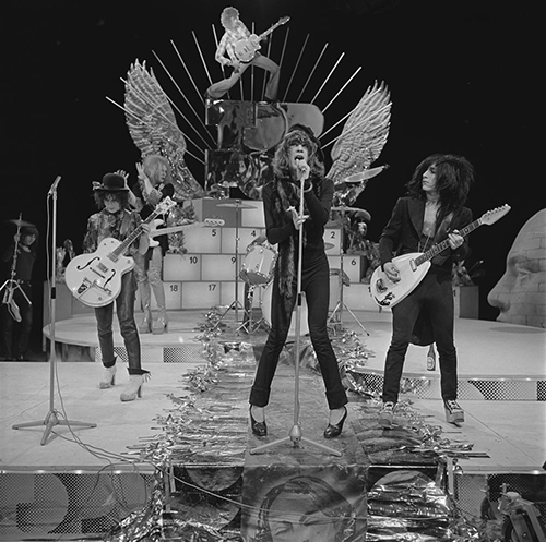 New York Dolls in AVRO's TopPop (Dutch television show) in 1973